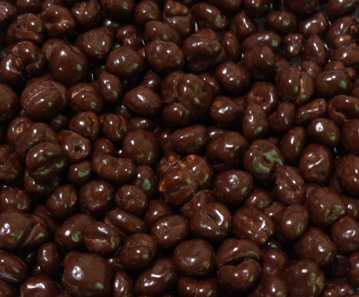 麦チョコ (Chocolate Wheat)